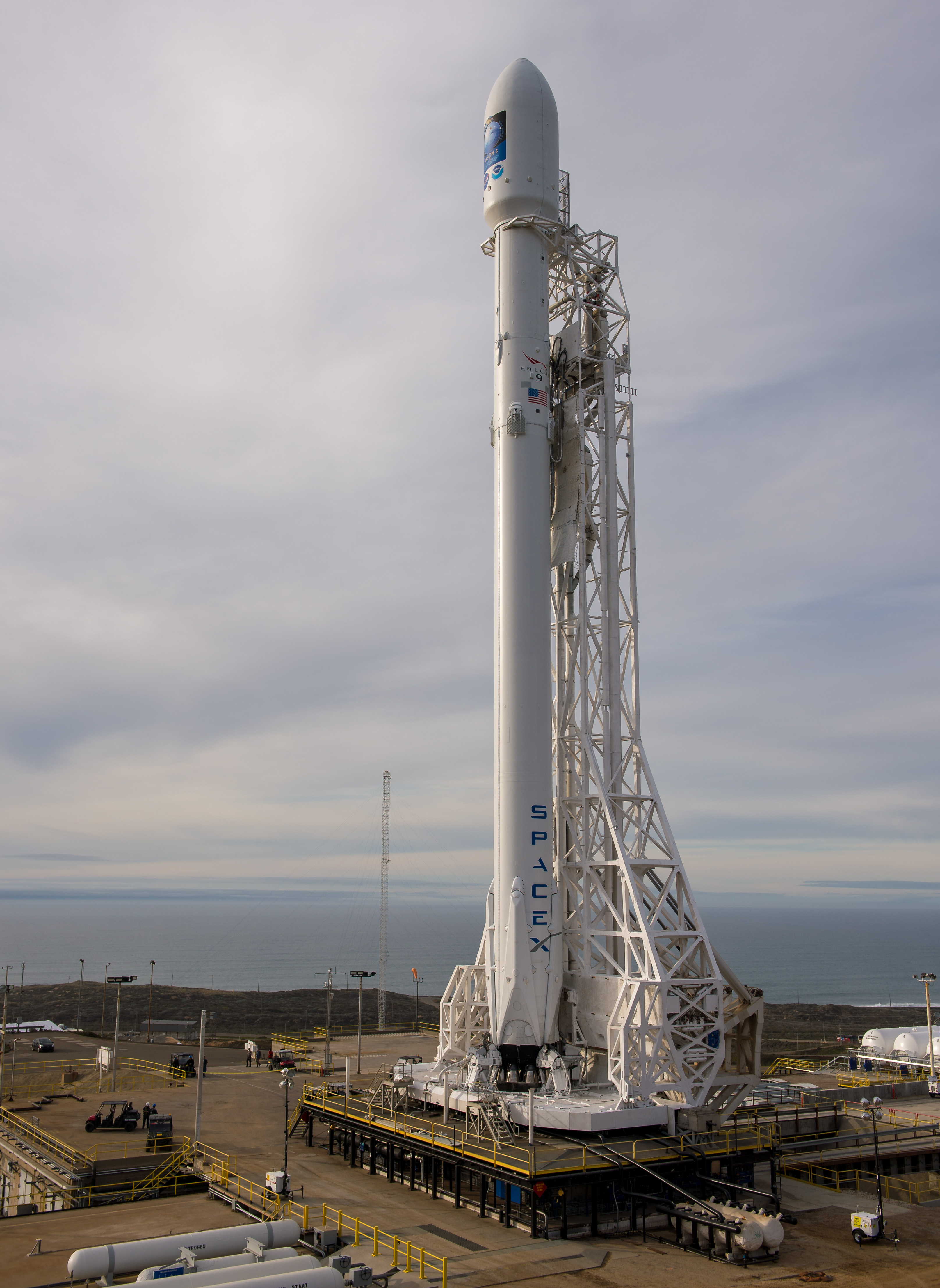 The SpaceX Falcon 9 rocket is seen at Vandenberg Air Force Base Space Launch Complex 4 East with the Jason-3 spacecraft onboard, Saturday, Jan. 16, 2016, in California. Jason-3, an international mission led by the National Oceanic and Atmospheric Administration (NOAA), will help continue U.S.-European satellite measurements of global ocean height changes. Photo Credit: (NASA/Bill Ingalls)